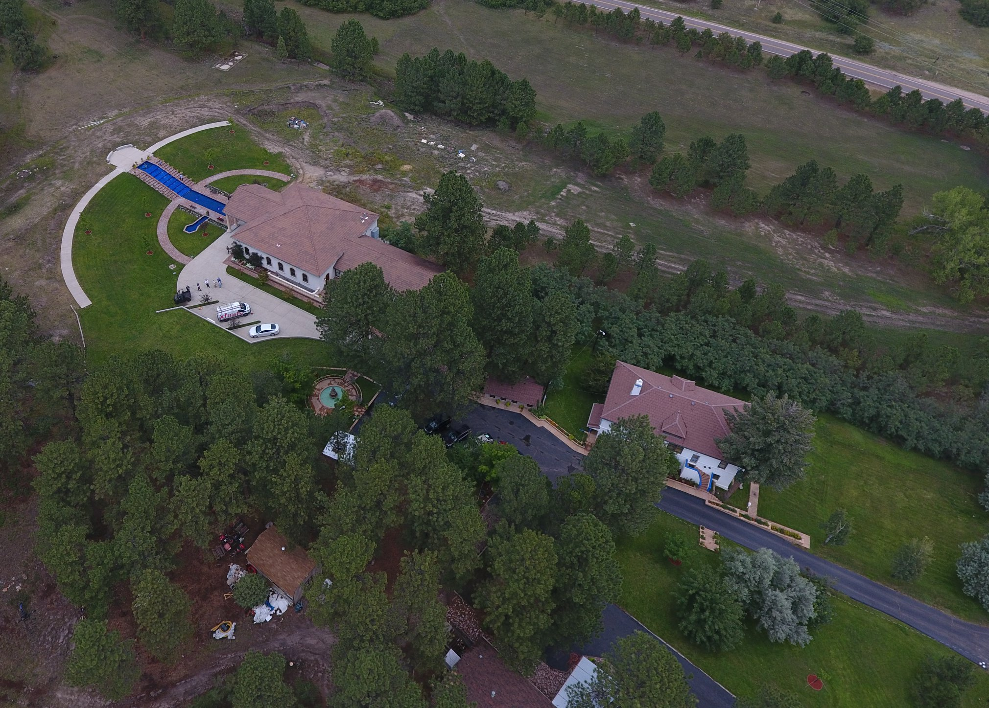 The Larkspur, Colorado Headquarters of Universal Co-Masonry, showing the Grand Temple and historic Headquarters building.